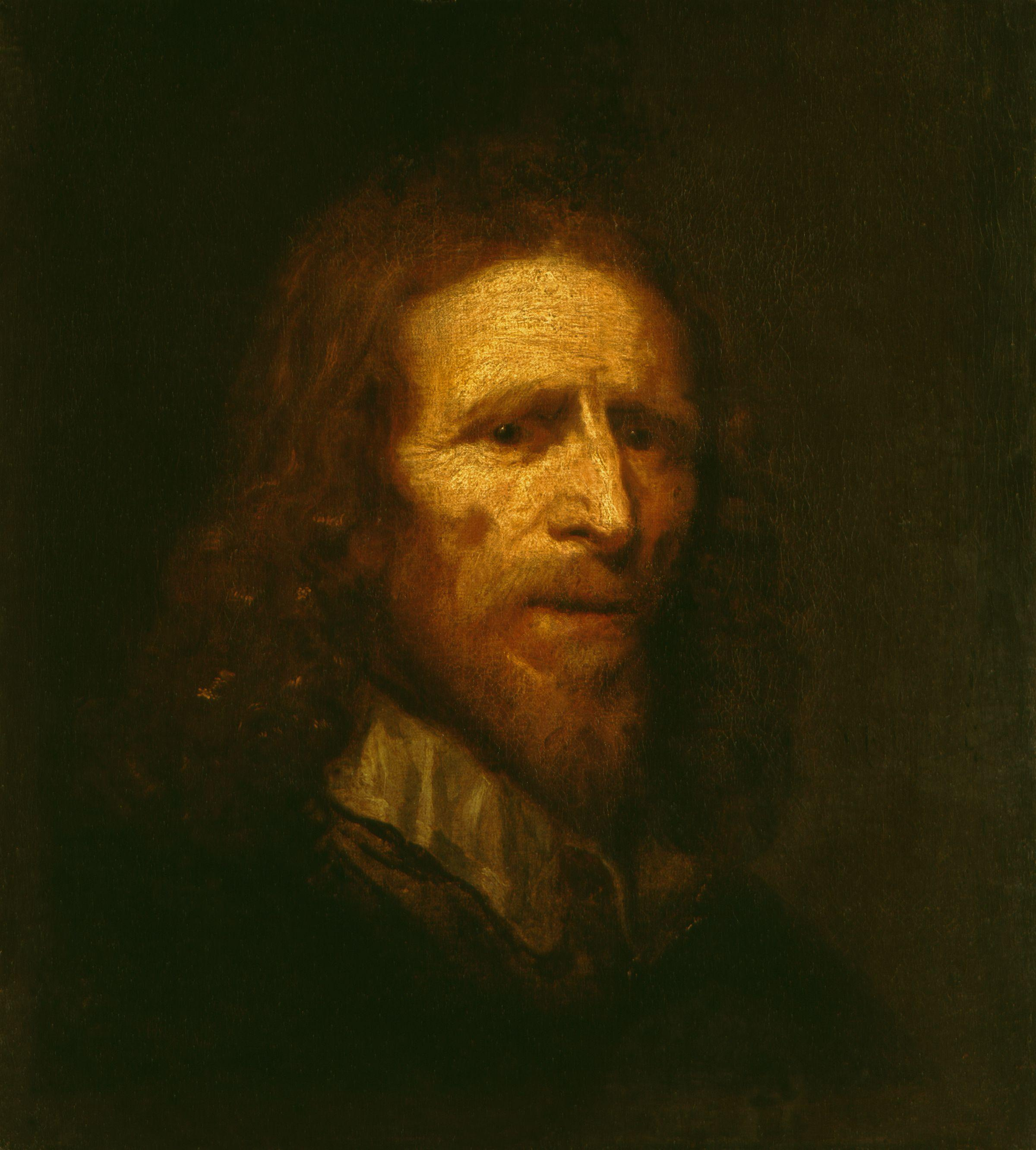 Abraham Van Der Doort, by William Dobson (died 1646). All images in this batch have been confirmed as author died before 1939 according to the official death date listed by the NPG.